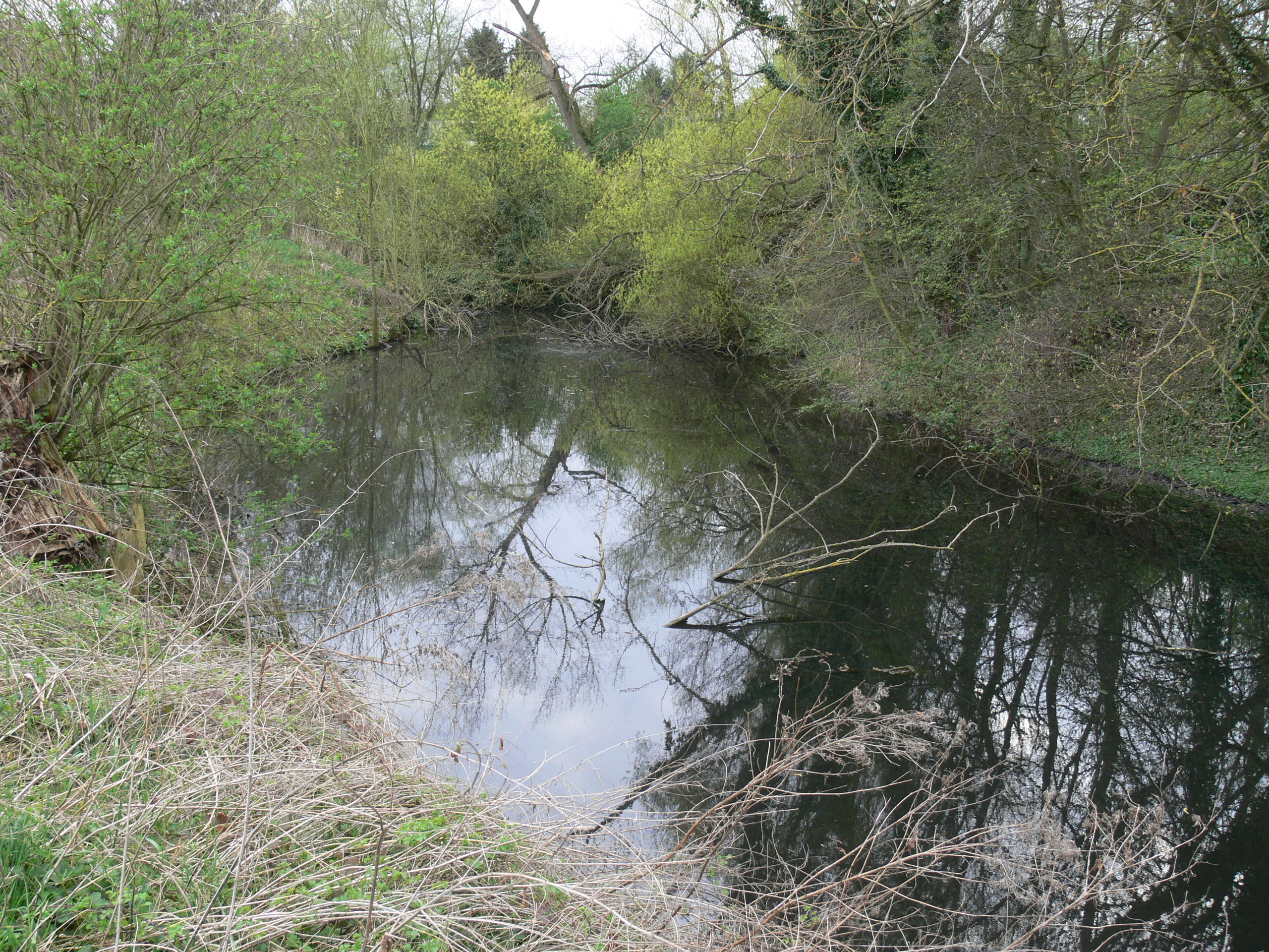 old sheldt at Escaupont (north of France), Spring 2007